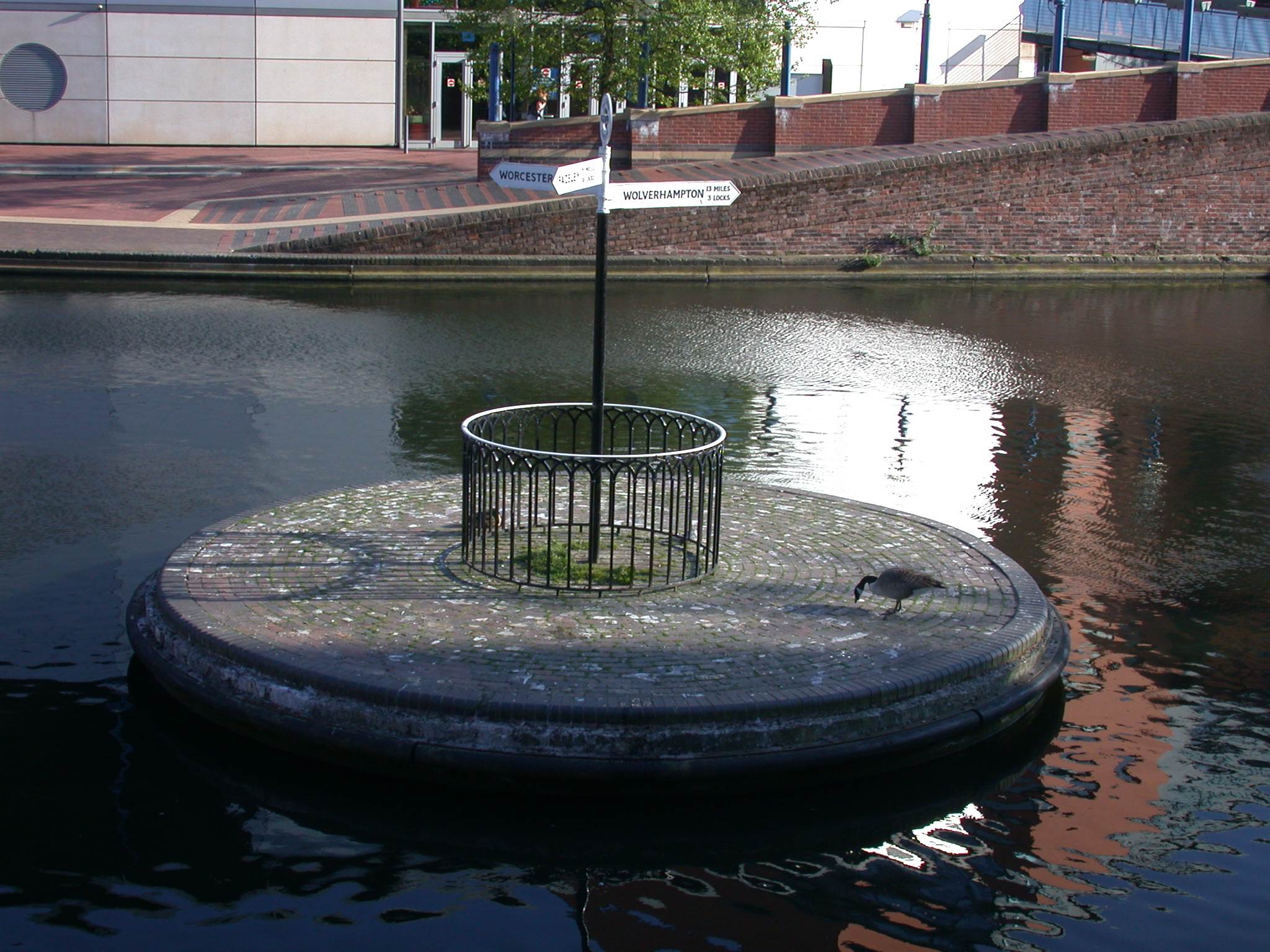 Birmingham Canal Navigations' s Old Turn Junction, Birmingham, England 2007-04-18, 6pm. see also File:BCN OldTurnJunction 2.jpg